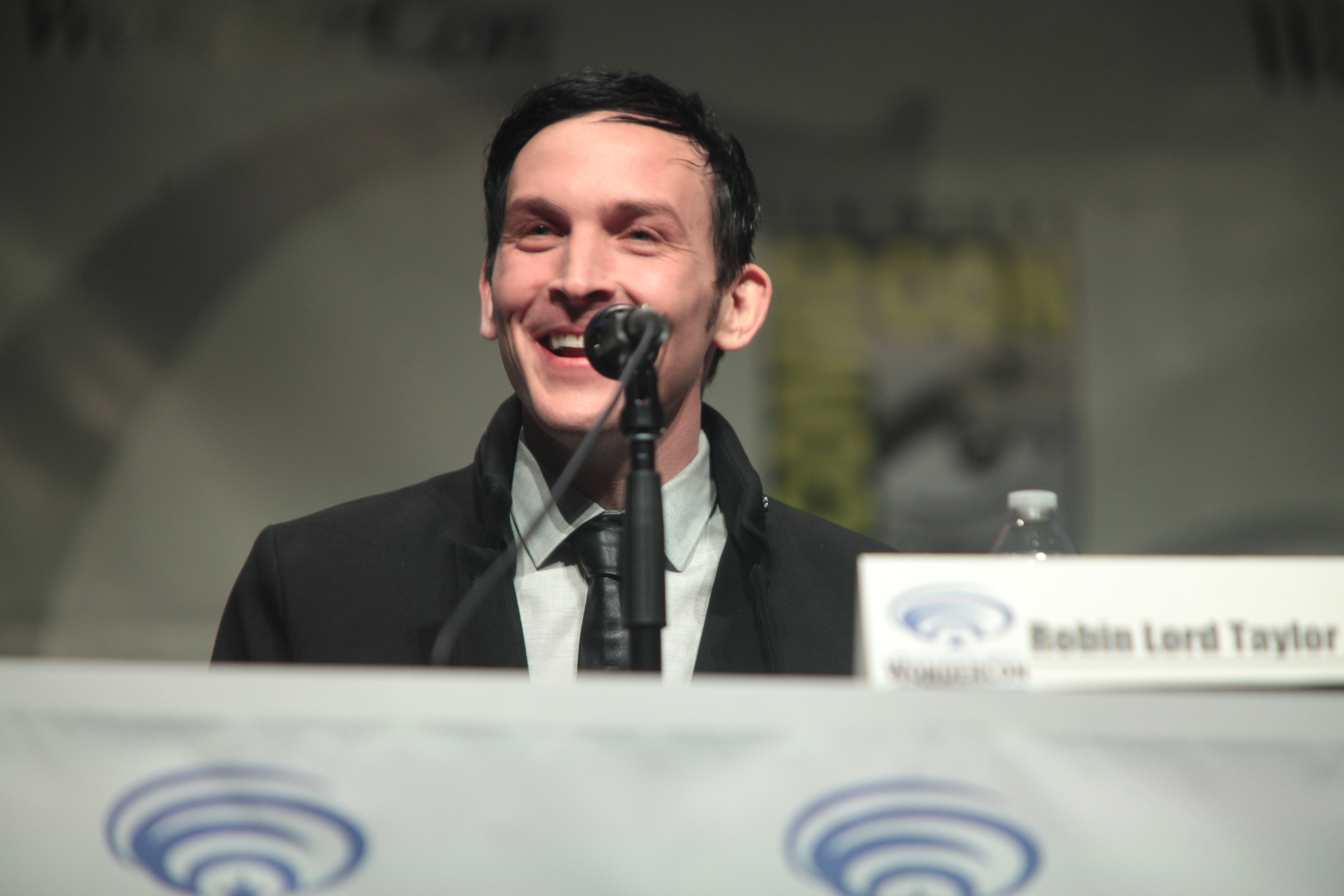 Robin Lord Taylor speaking at the 2015 Wondercon, for "Gotham", at the Anaheim Convention Center in Anaheim, California.